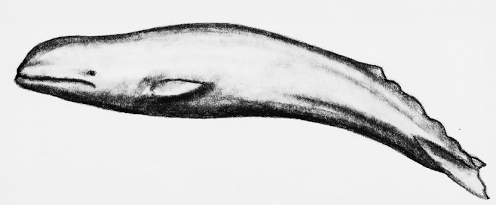 Drawing of a brygmophyseter